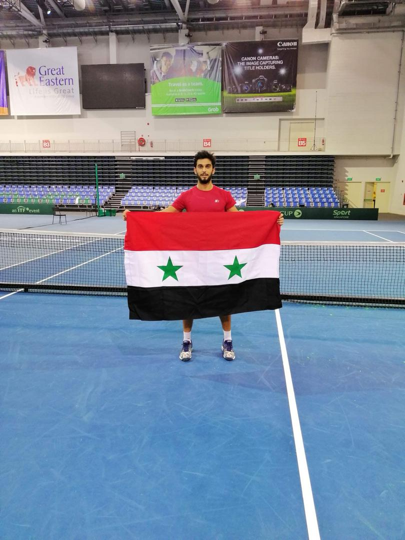 Davis Cup Zone 3 For tennis in a game for Syrian national team